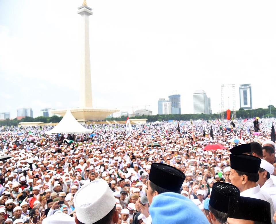 President Joko Widodo addressing the crowd during Aksi 2 Desember